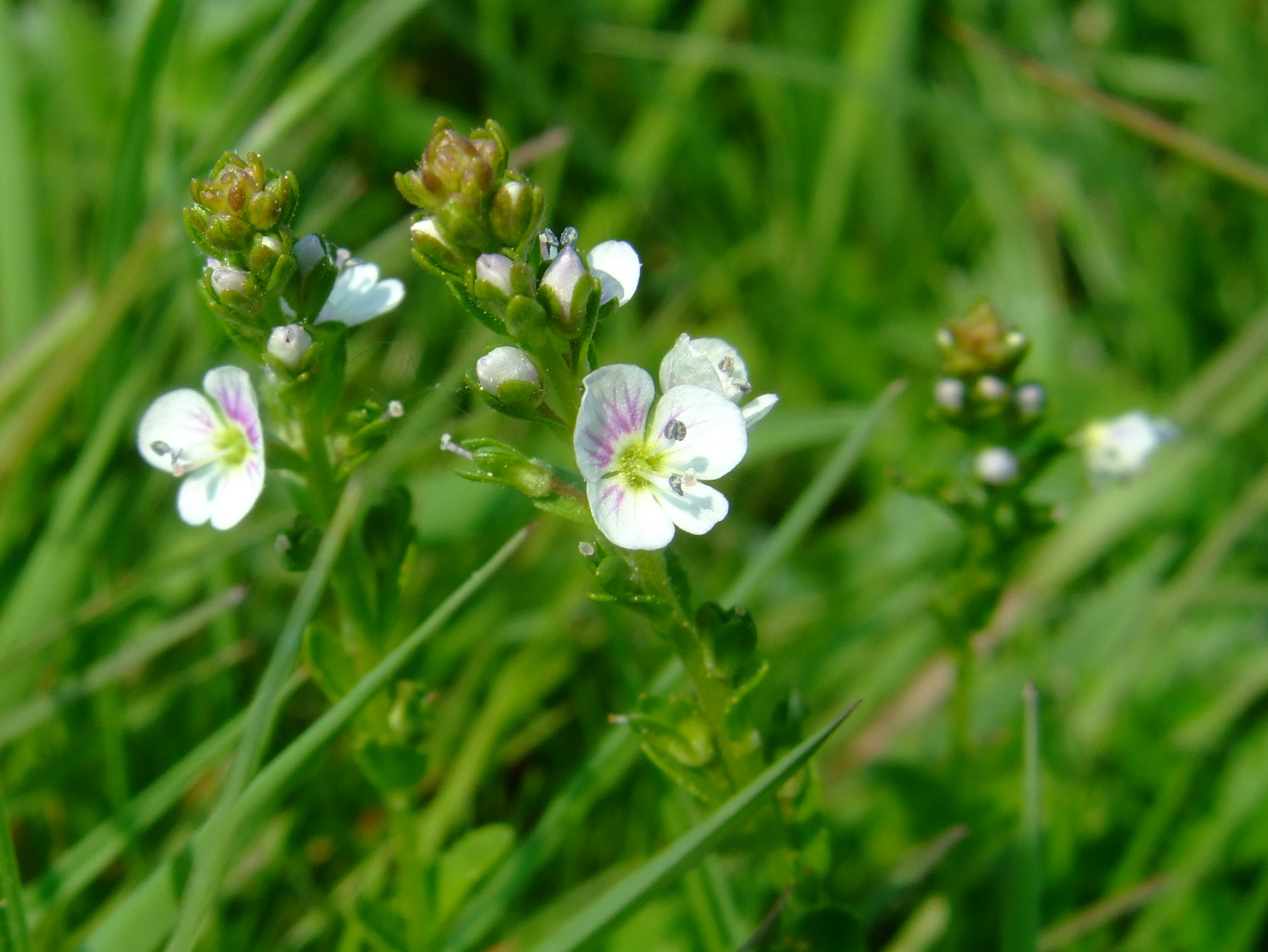 Thymeleaf in Hamburg.